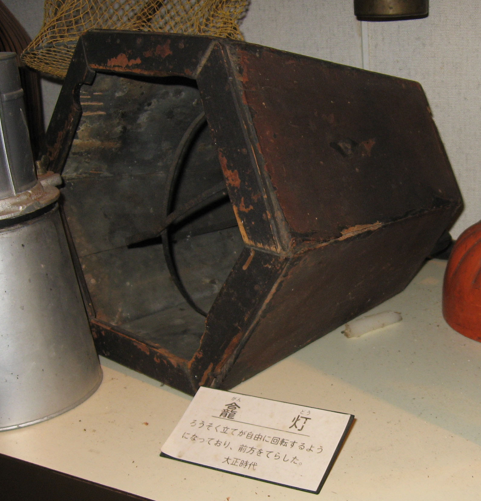 gandou, like a handy lamp in Edo period in Japan